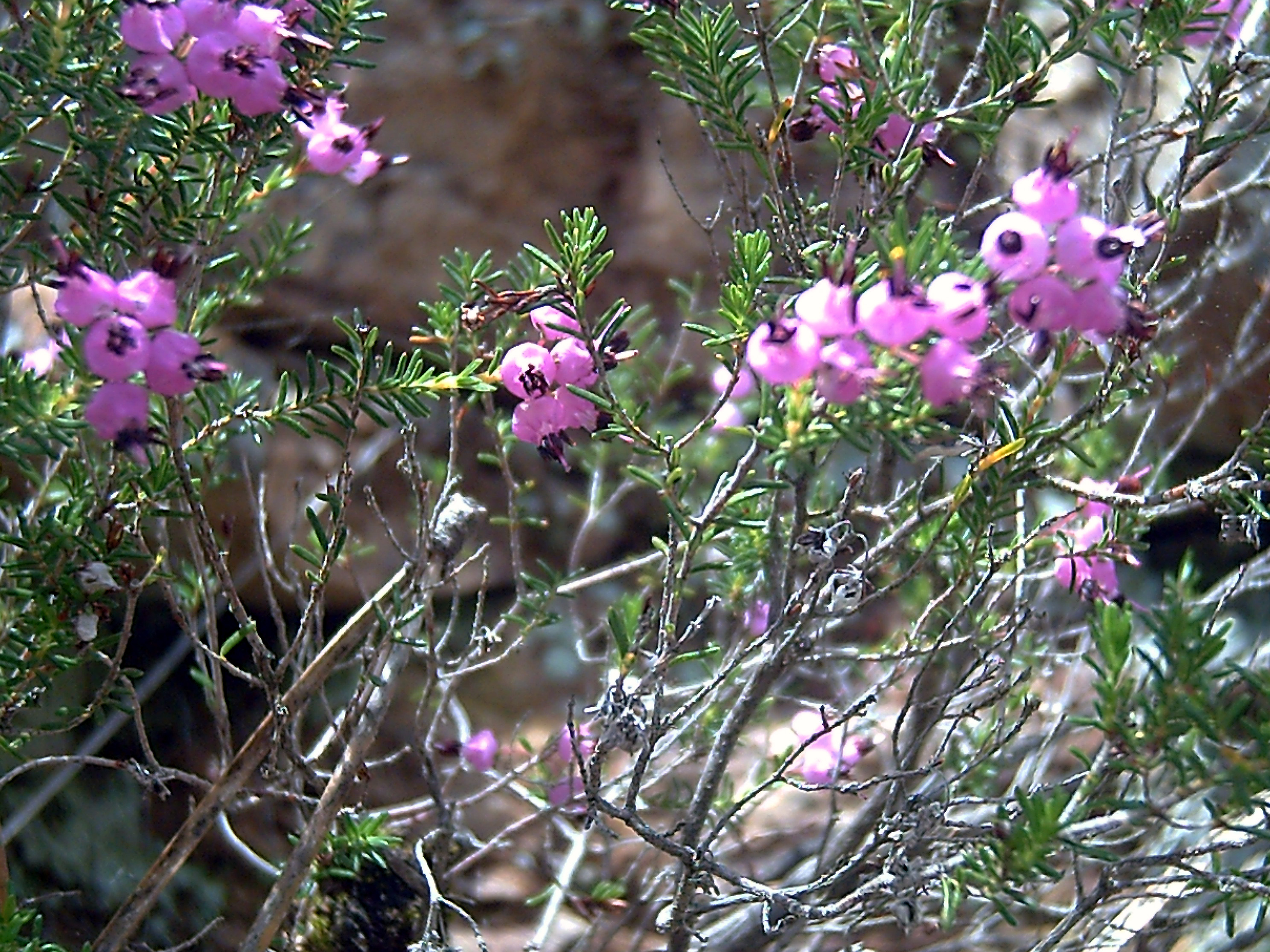 Erica umbellata flowers close up, Dehesa Boyal de Puertollano, Spain